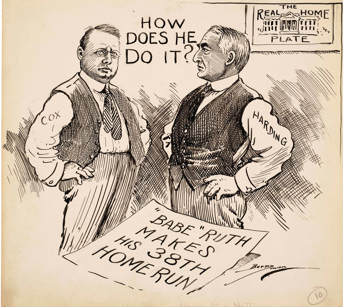 "How does he do it?" Presidential candidates Warren G. Harding and James M. Cox take time out to ponder another big story of 1920, Babe Ruth's record-breaking home run tally (he hit 54, breaking his own record of 29).